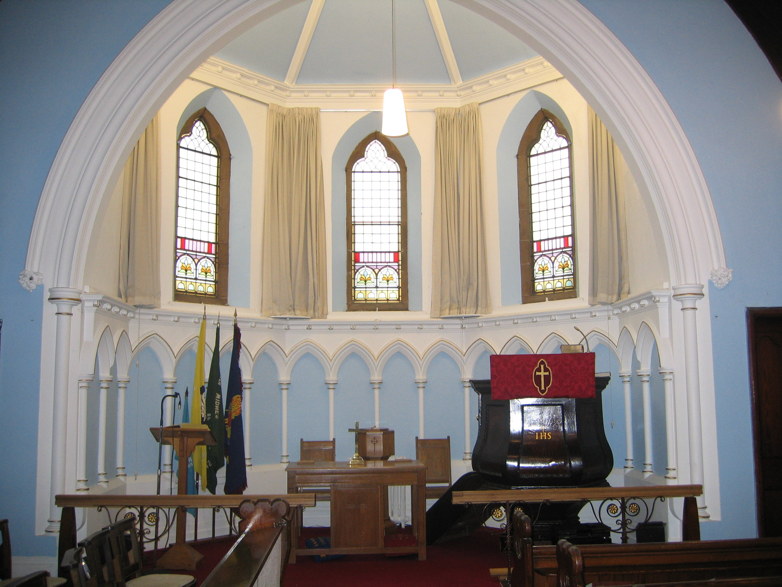 Photograph taken by me in 2004. It shows the interior of the chapel and on the right is the medieval pulpit, formerly in Runcorn Parish Church, purchased by Thomas Hazlehurst in the 1840s and given to the chapel.